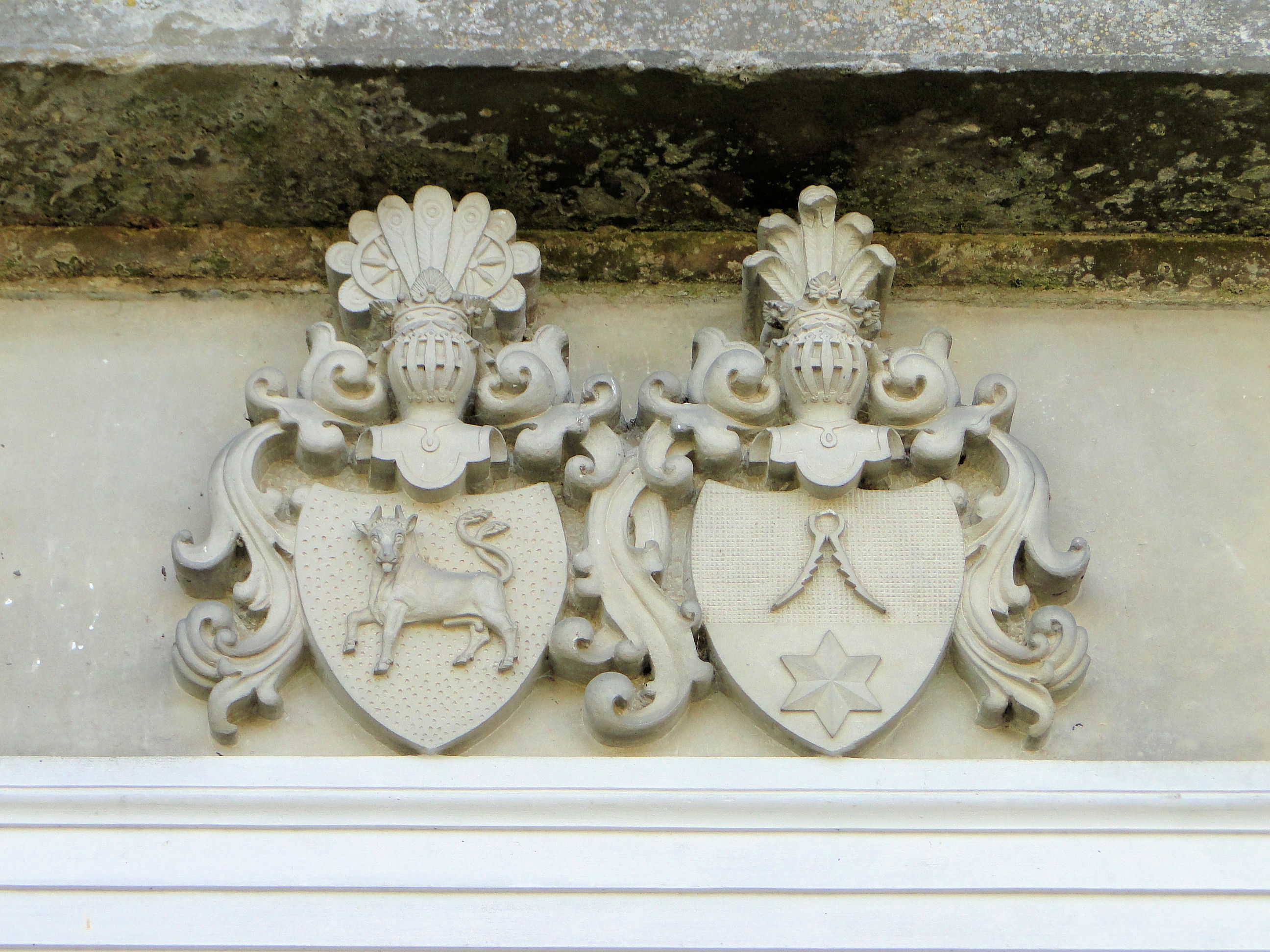 Coats of arms of the families Plessen and Carnap on the manor house in Reez, district Rostock, Mecklenburg-Vorpommern, Germany